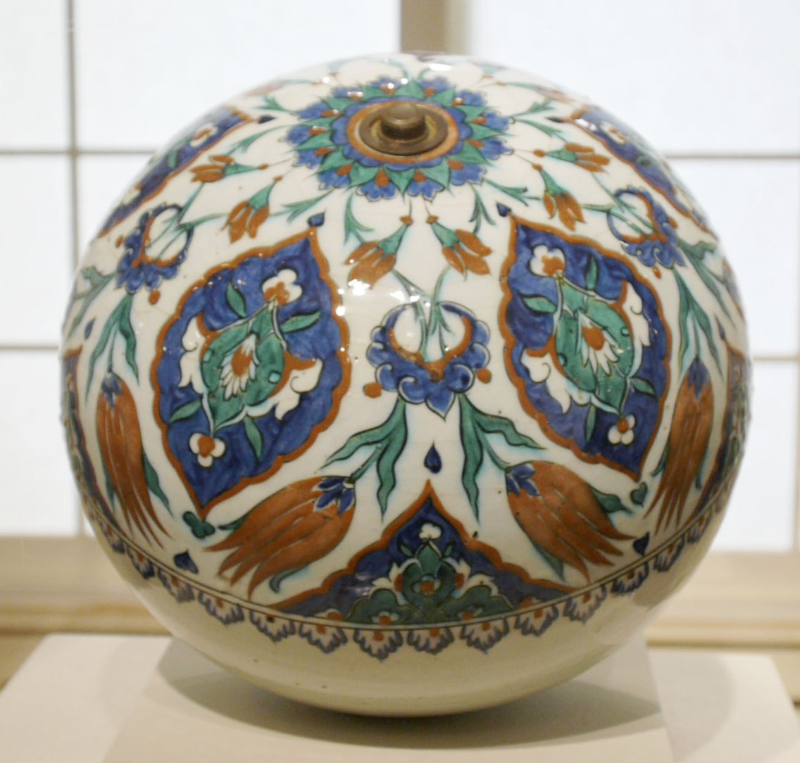 Spherical Hanging Ornament